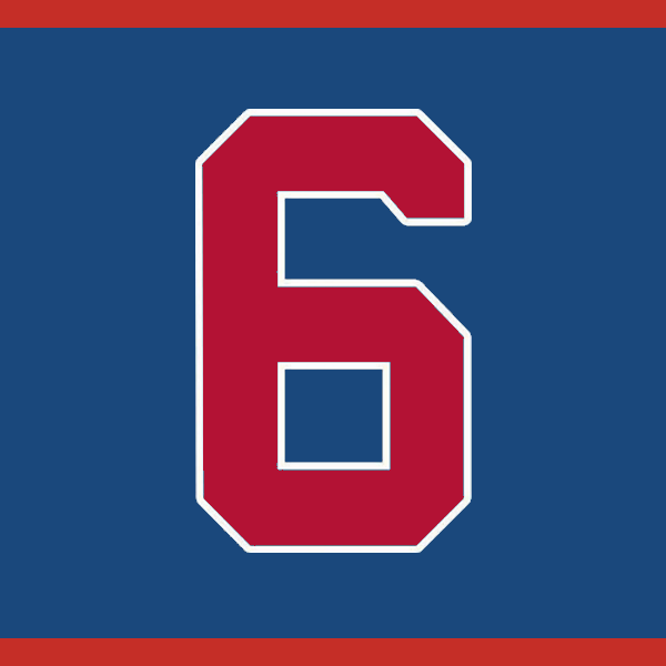 Illustration of Bobby Cox's Retired Braves Number